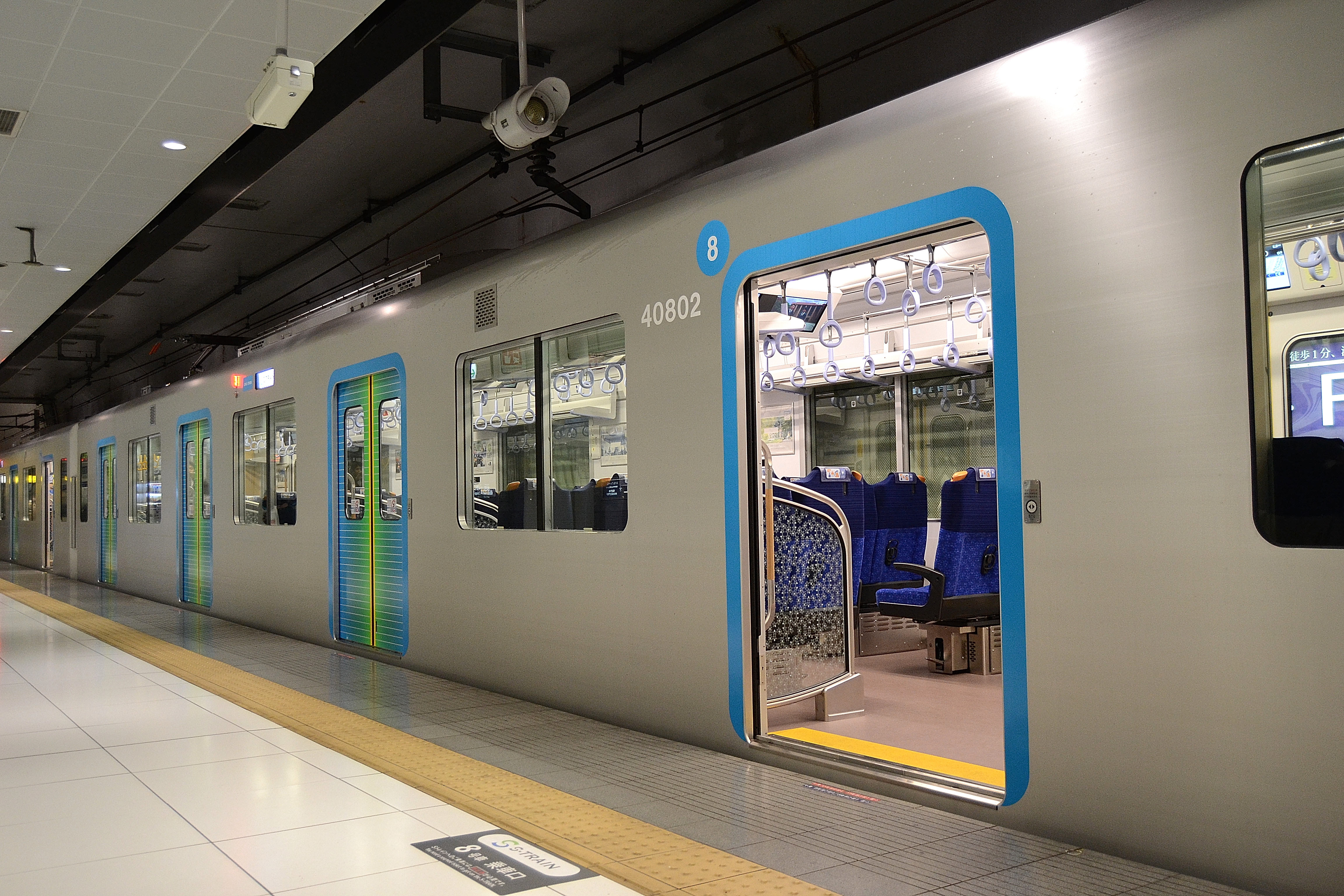 Seibu 40000 series EMU set 40102 at Motomachi-Chukagai Station on an S-Train service